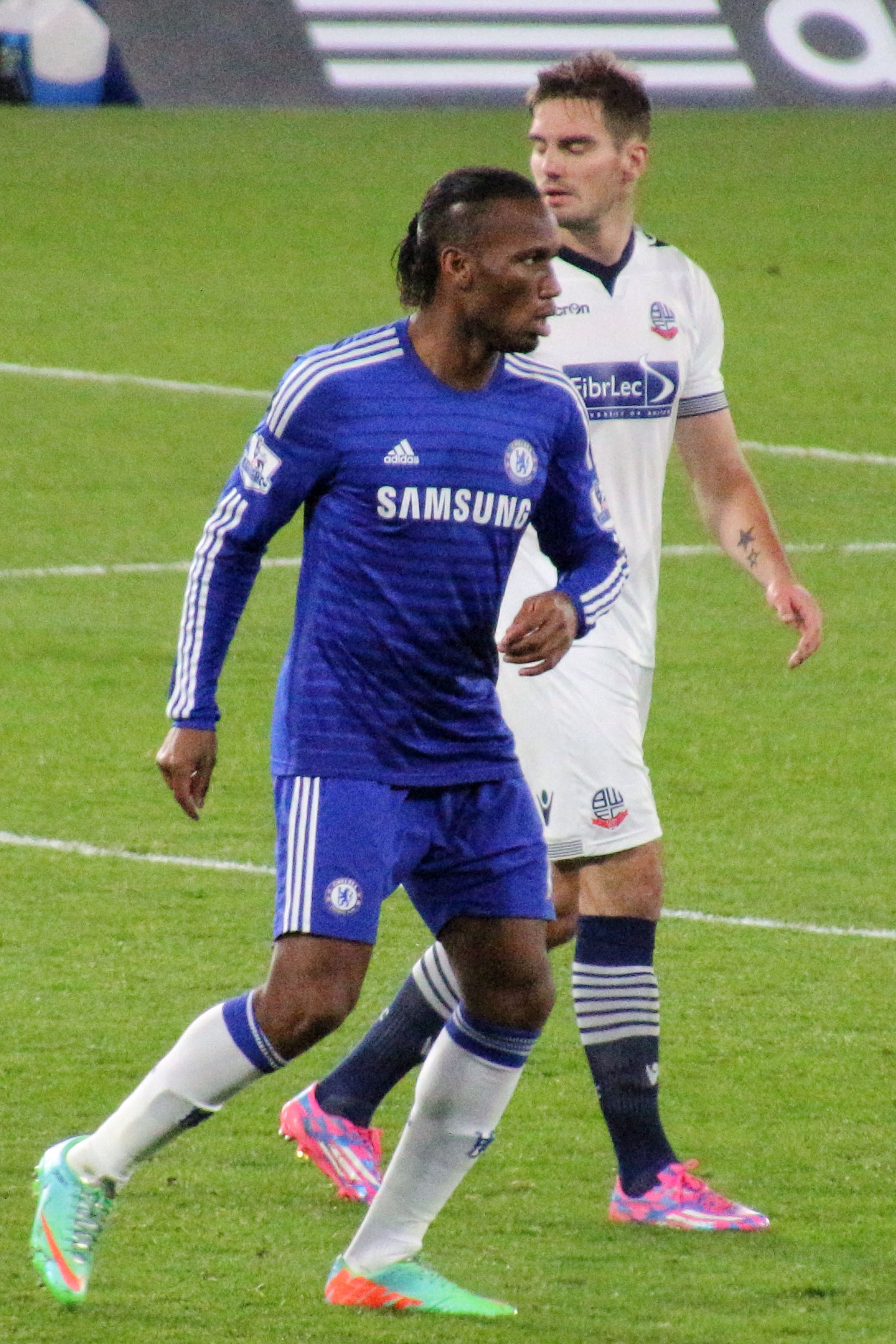 Chelsea 2 Bolton Wanderers 1 Chelsea progress to the next round of the Capital One cup